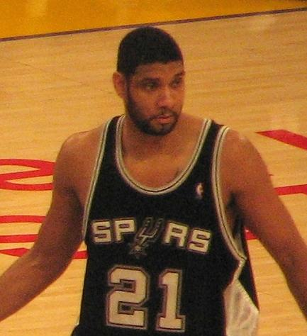 Photo of Tim Duncan.